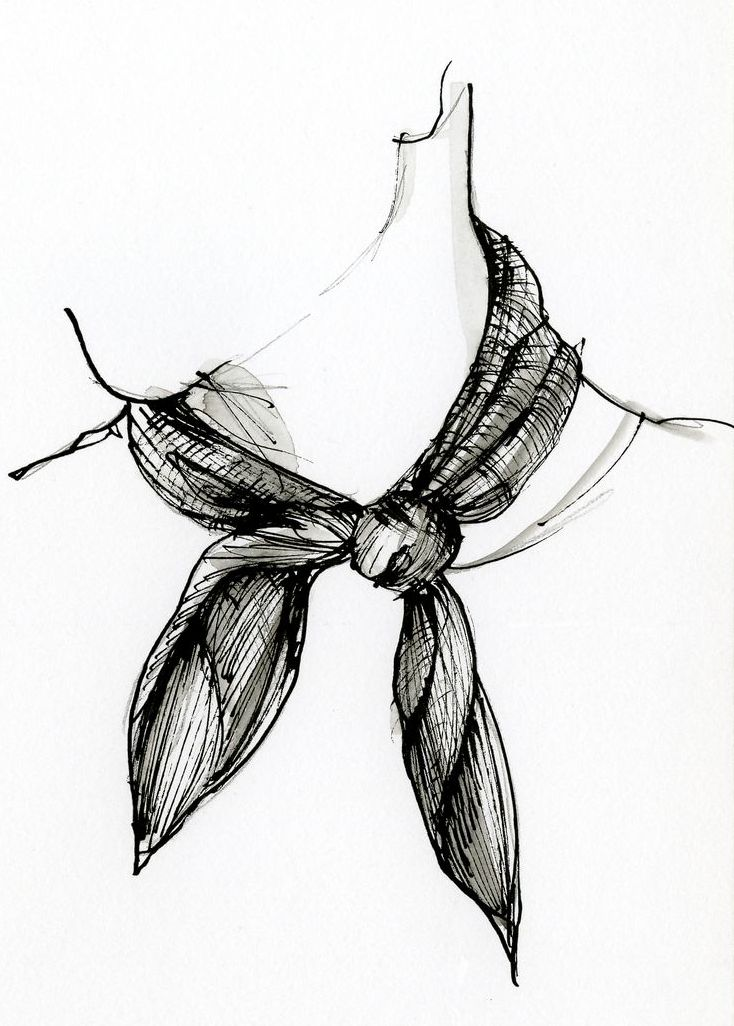 The description of the concept in this drawing is: Any square or strip of linen or other material folded around the neck, often worn as part of a uniform. (AAT)